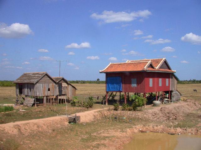 Cambodia from a bus window